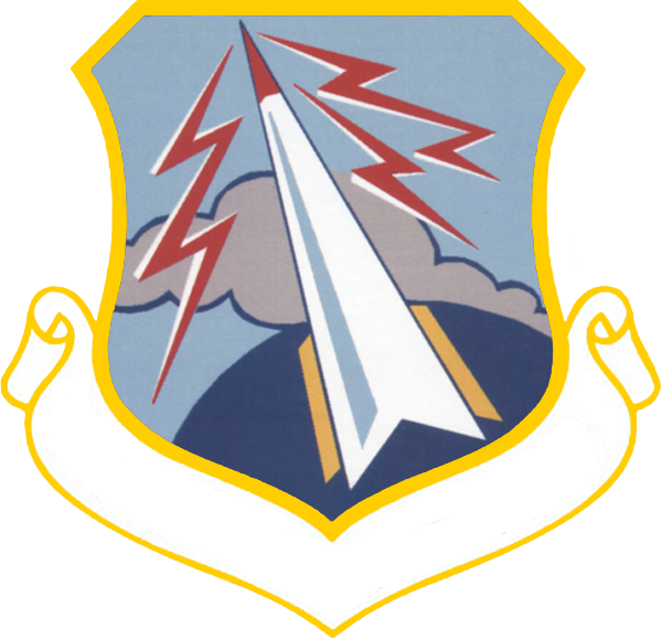 389th Strategic Missile Wing emblem